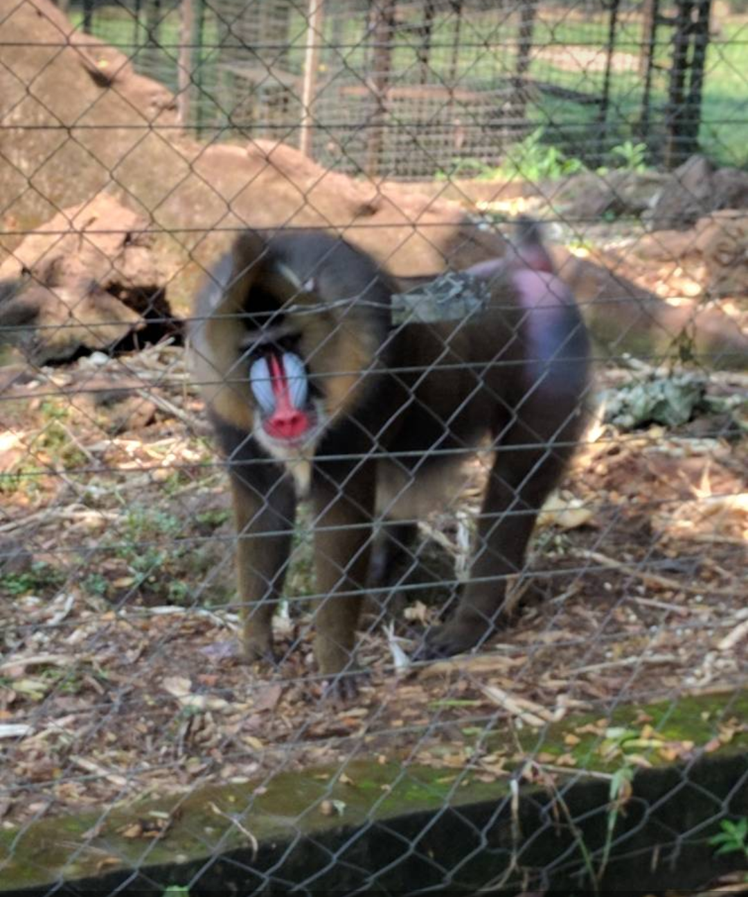 A mandrill at the Limbe wildlife centre in the South West Region of Cameroon